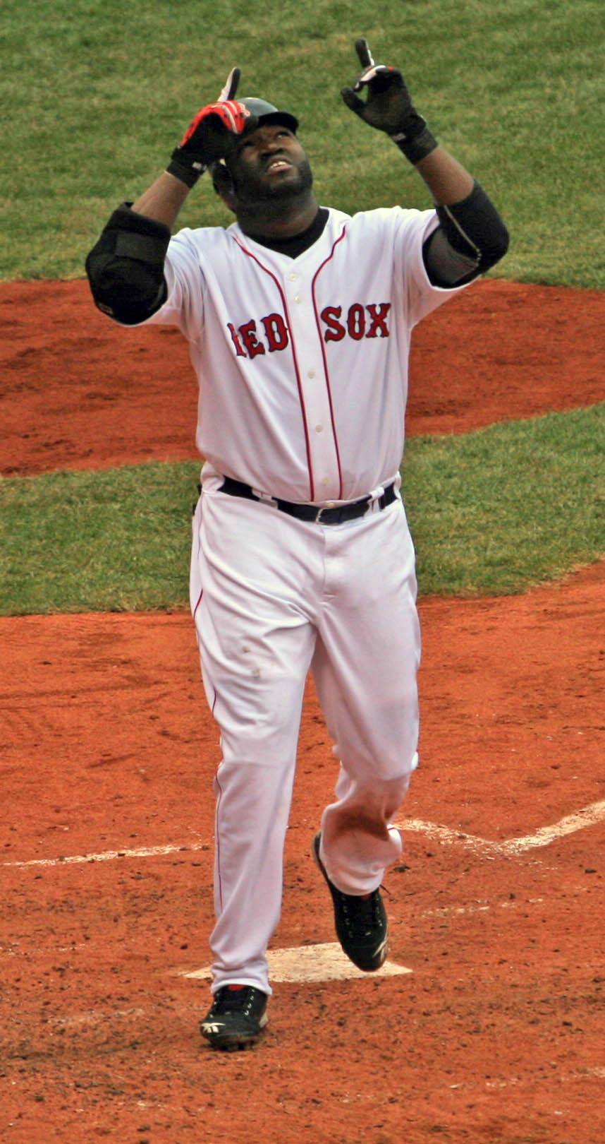 David Ortiz of the Boston Red Sox points to his own name after hitting a home run. 20:34, 17 April 2007 . . Toasterb . . 858×1620 (214,756 bytes)